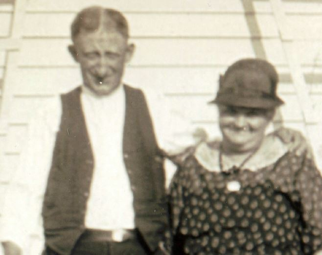 This is a snapshot of Frank Pojman and his wife Justina Hodan obtained from their grandson Ryan Pojman.